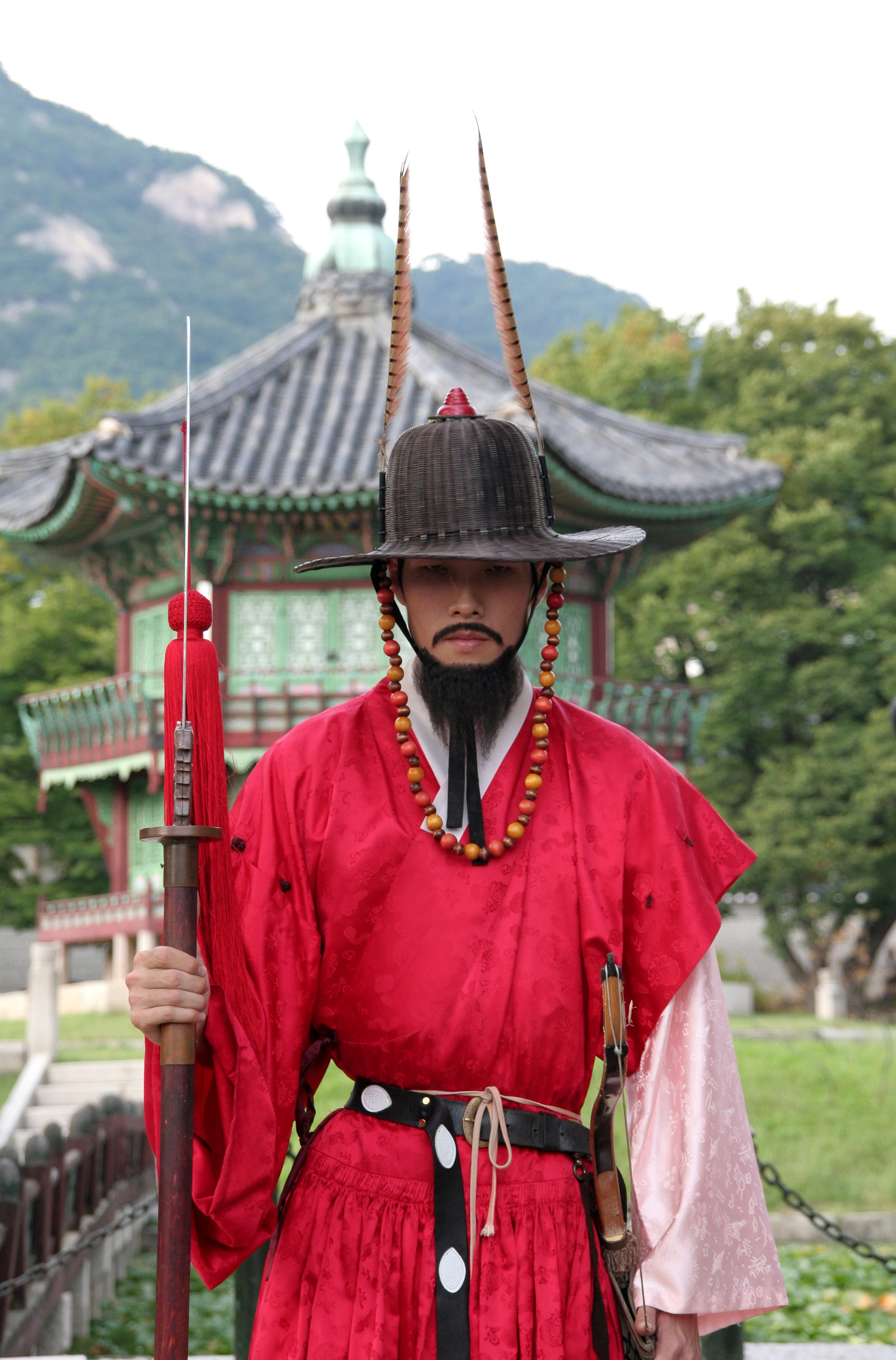 Korean royal guard at Gyeongbokgung, Seoul, South Korea